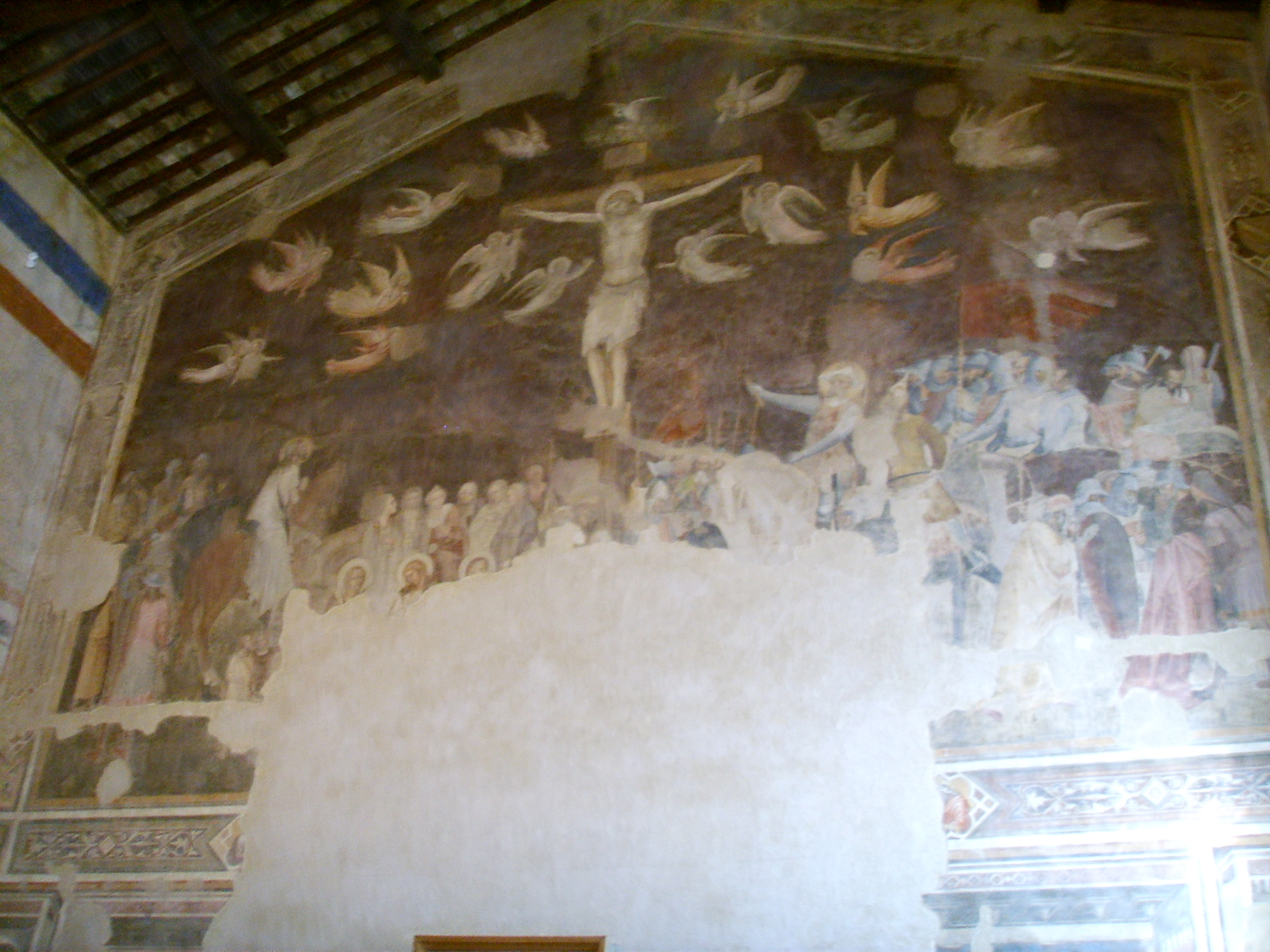 Santo Spirito refectory frescos